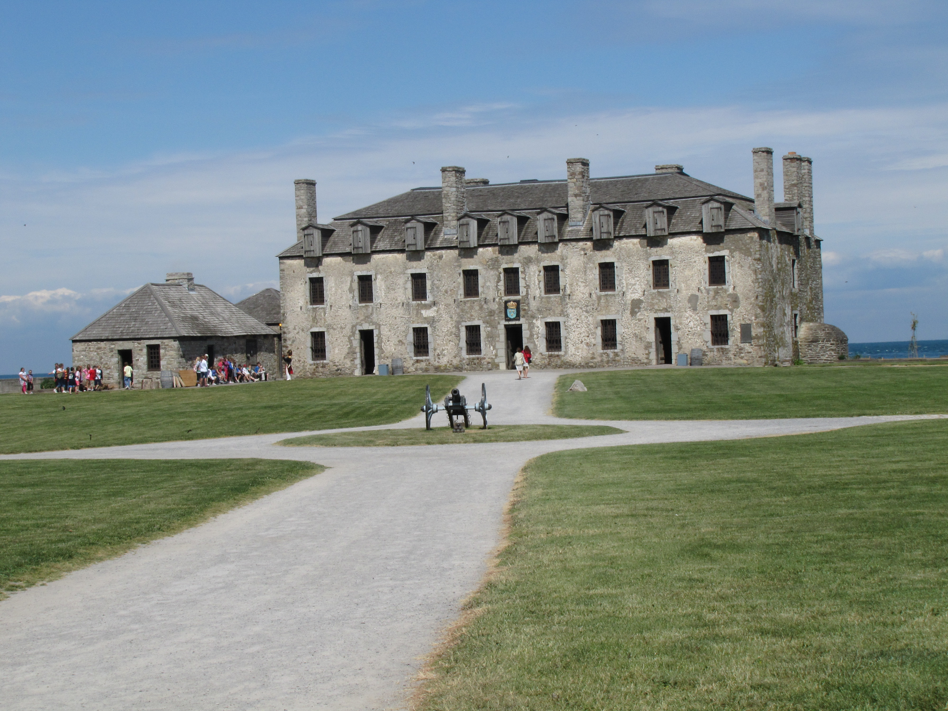 Old Fort Niagara 1678 castle